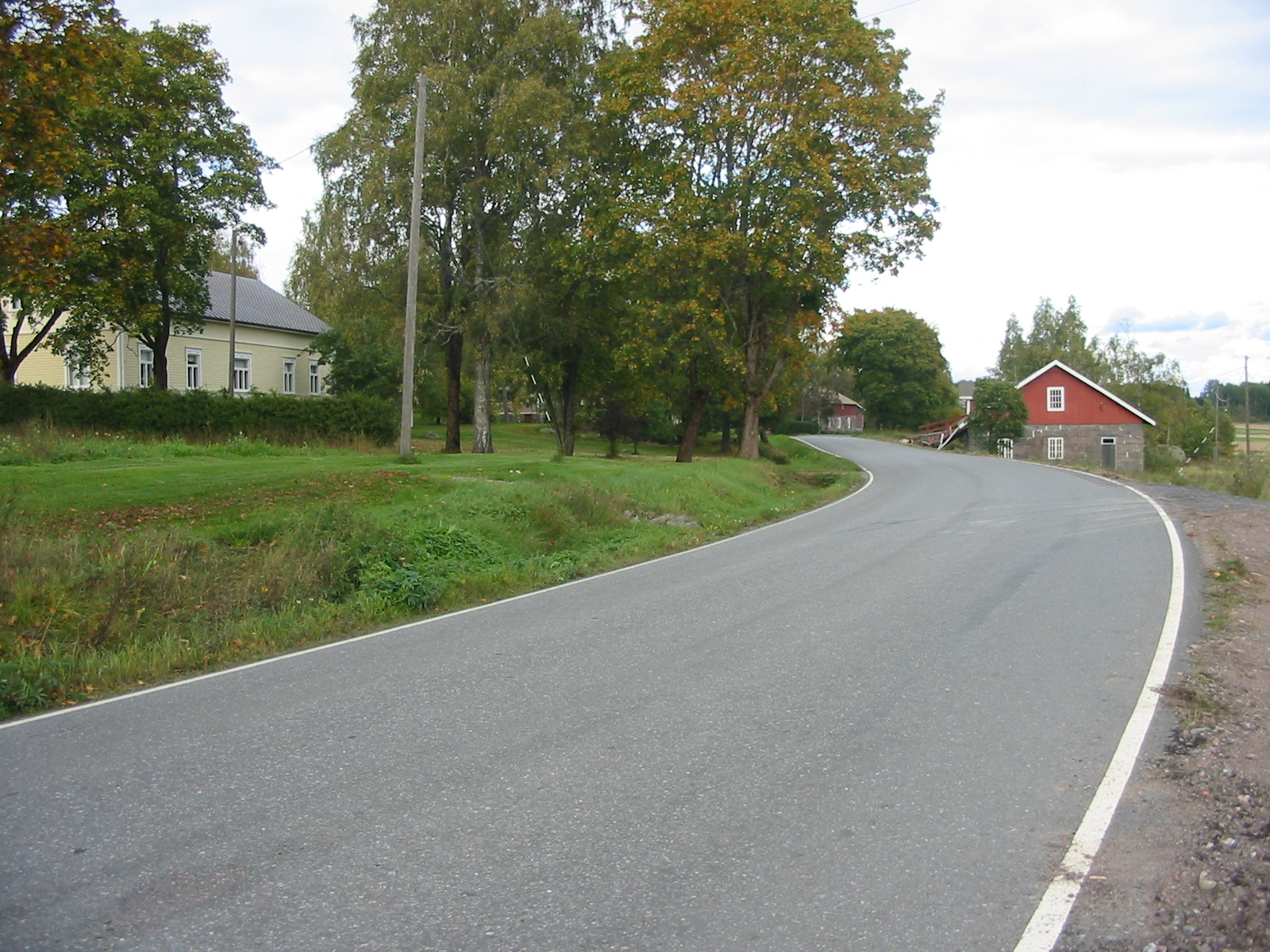 Häme Oxen Road (Hämeen härkätie, national road 2802) in Pajula, Somero, Finland.